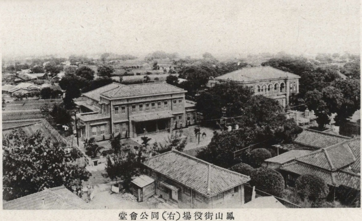 鳳山街役場同公會堂